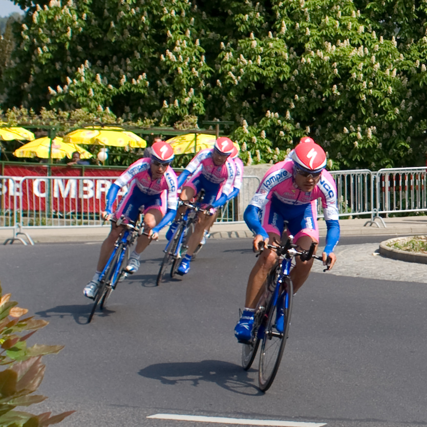 Tour de Romandie 2009 - 3rd stage - team time trial